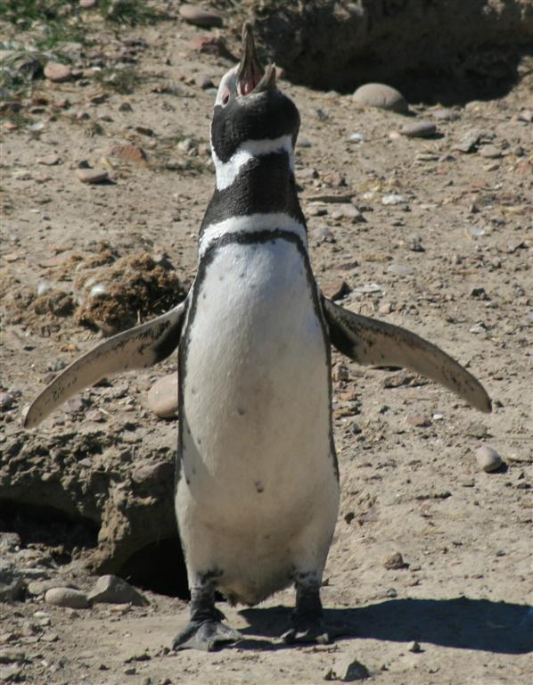 Penguin